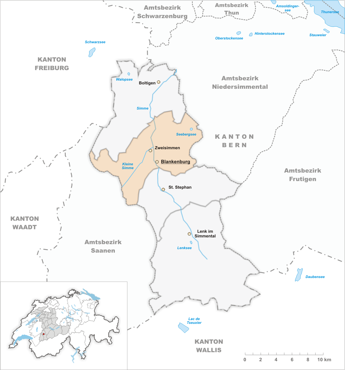 Municipality Zweisimmen